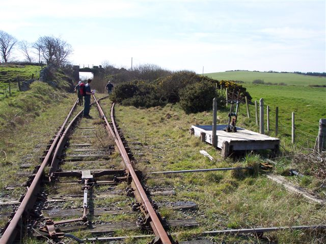 Disused railway junction, Anglesey The short branch leading away west from the disused line to Amlwch served the former Shell Oil Depot near Rhosgoch